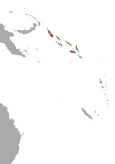 Solomons Flying Fox (Pteropus rayneri) range